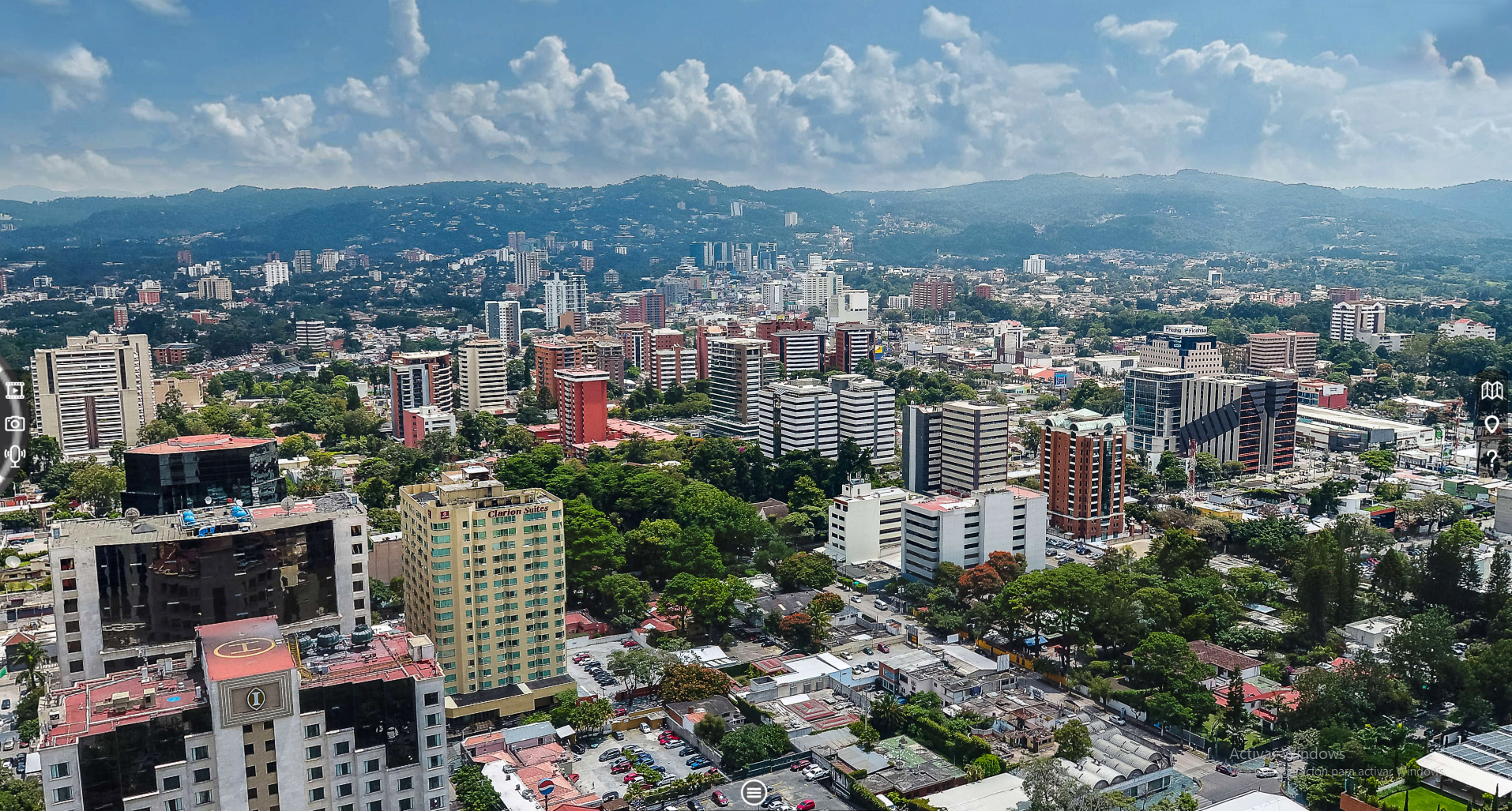 Office Buildings in Guatemala City